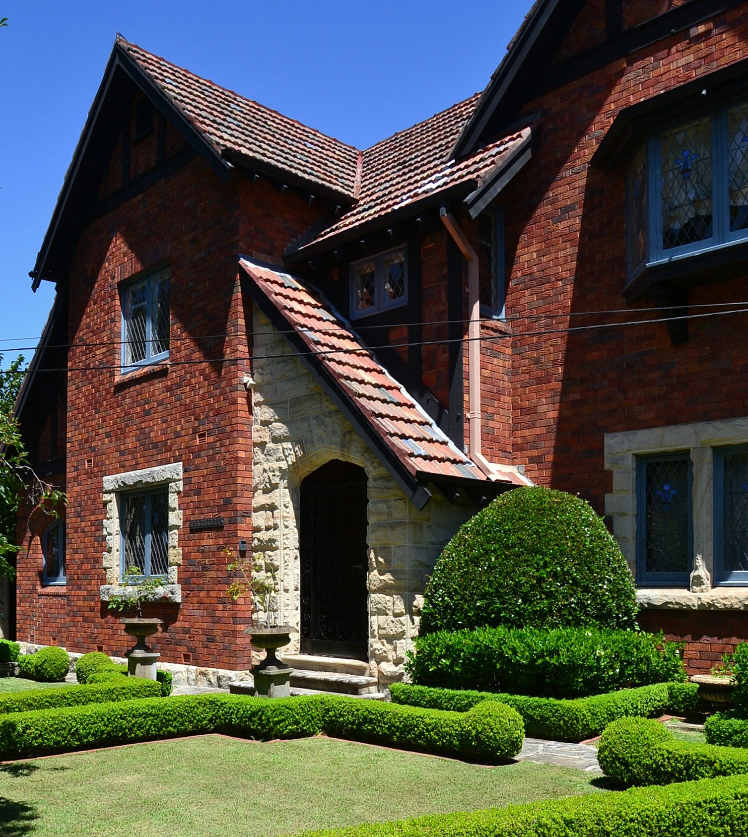 house, Warrawee, Sydney